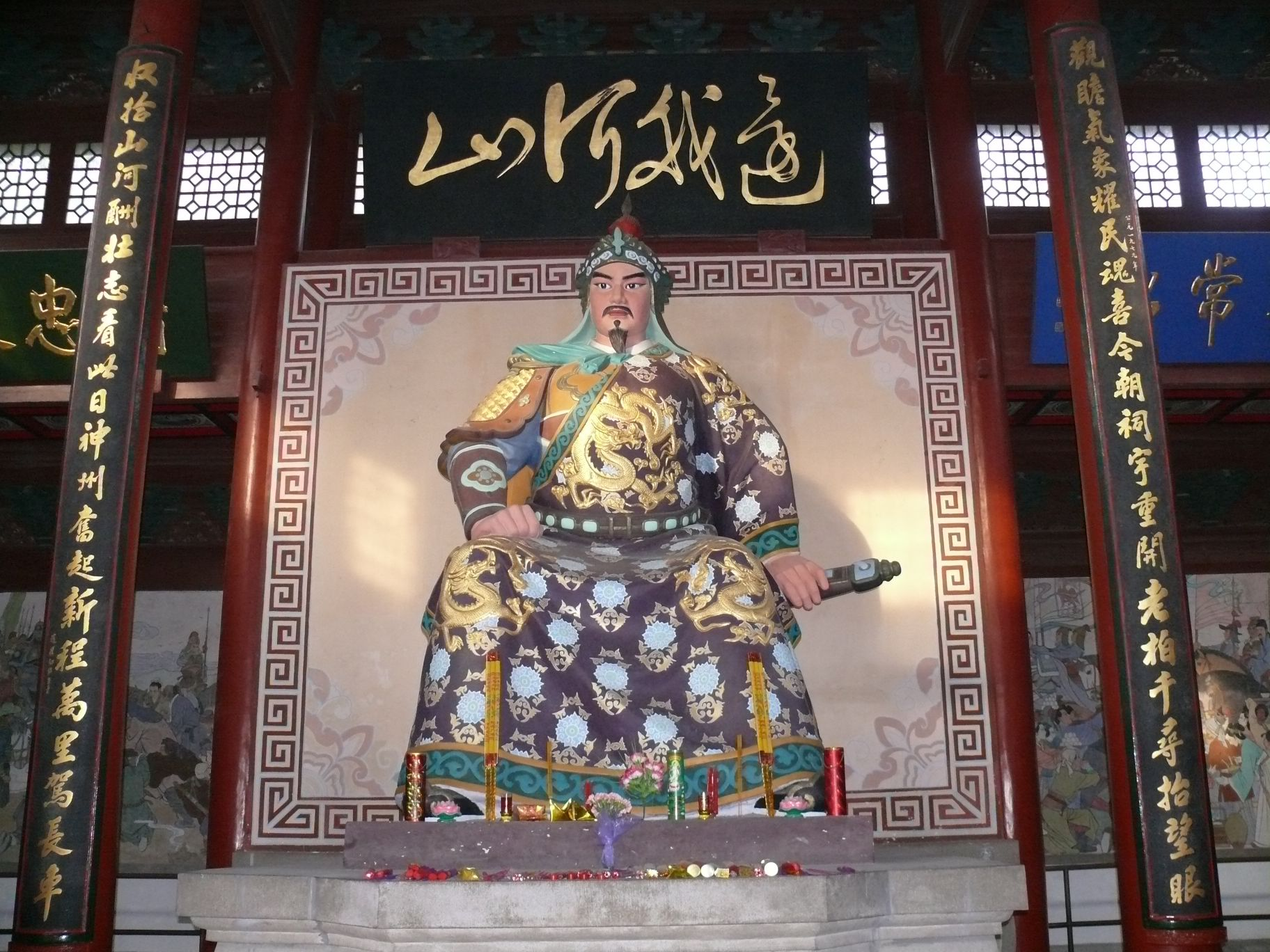 Statue of Yue Fei at Yue Fei Temple (Hangzhou, China).